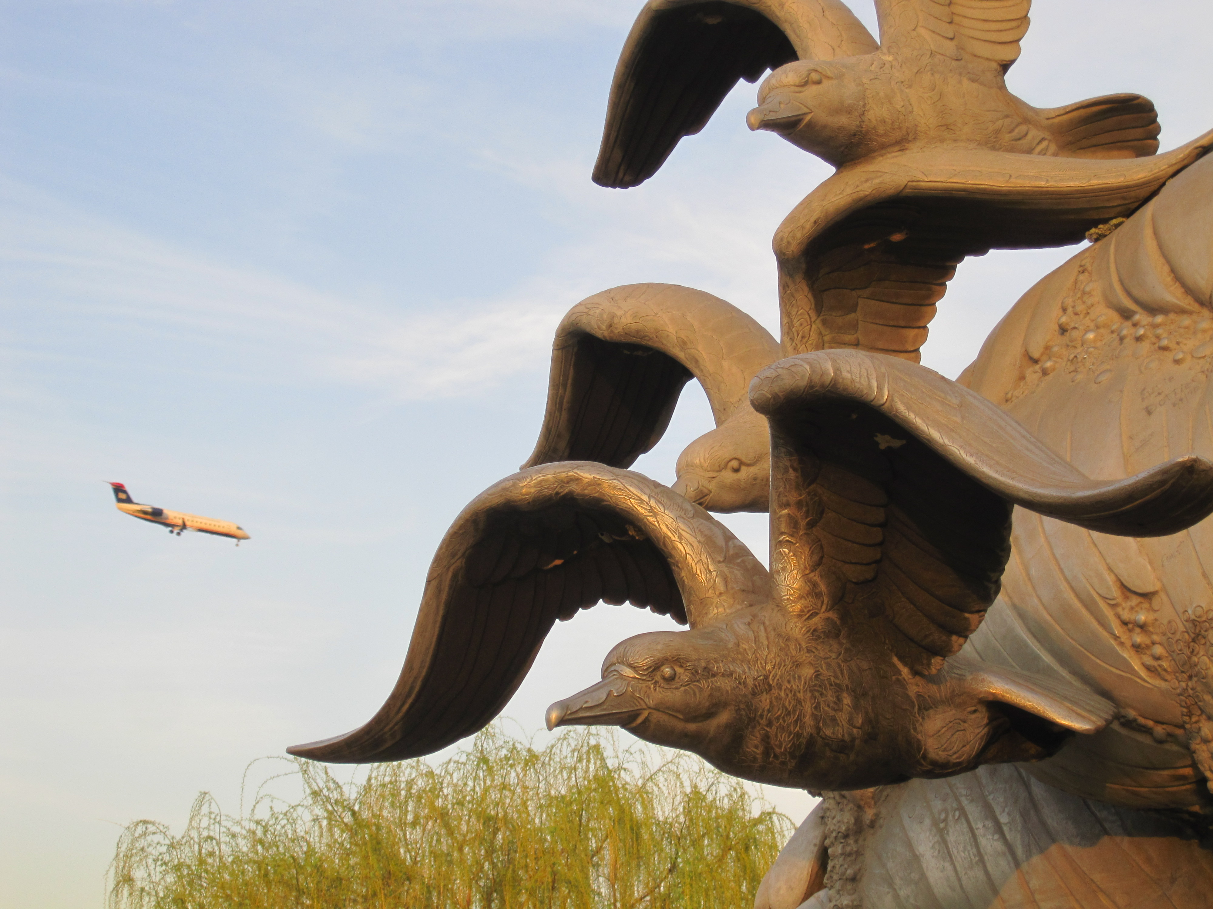 Detail image of the gulls on the Navy – Merchant Marine Memorial in Columbia Island (District of Columbia). A US Airways commuter flight is visible in the background on final approach to DCA. Photograph taken April 5, 2010. Sculpture designed 1922 and dedicated Oct. 13, 1934. The artwork is owned by the United States Department of the Interior, National Park Service, Washington, District of Columbia. +